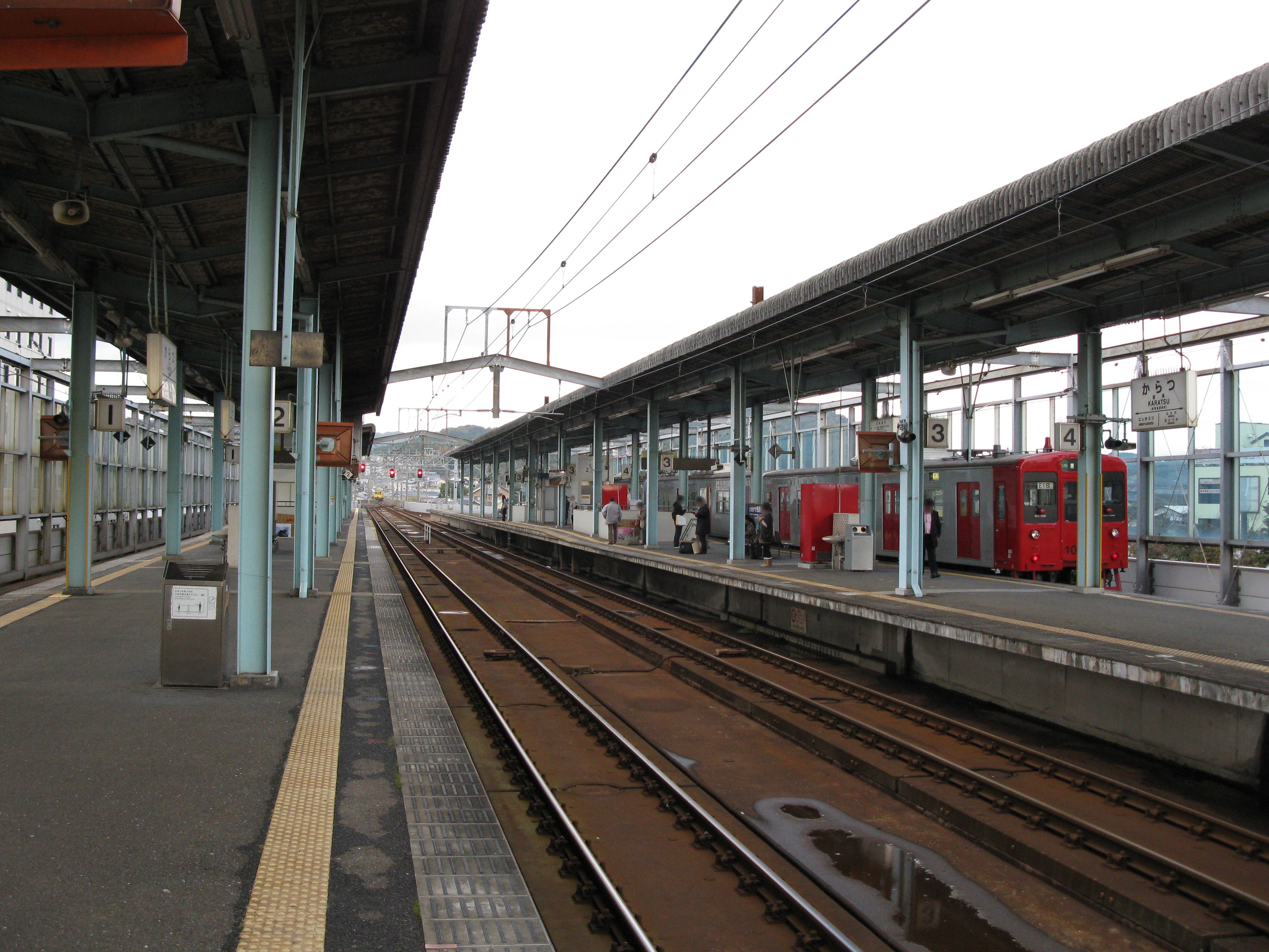 The platforms at Karatsu Station on the Kyushu Railway Karatsu Line, Chikuhi Line